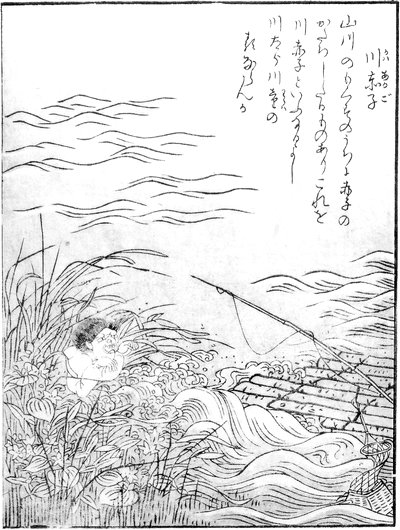 Kawa-akago (川赤子, an infant monster that lurks near rivers and drowns people) from the Konjaku Gazu Zoku Hyakki (今昔画図続百鬼)